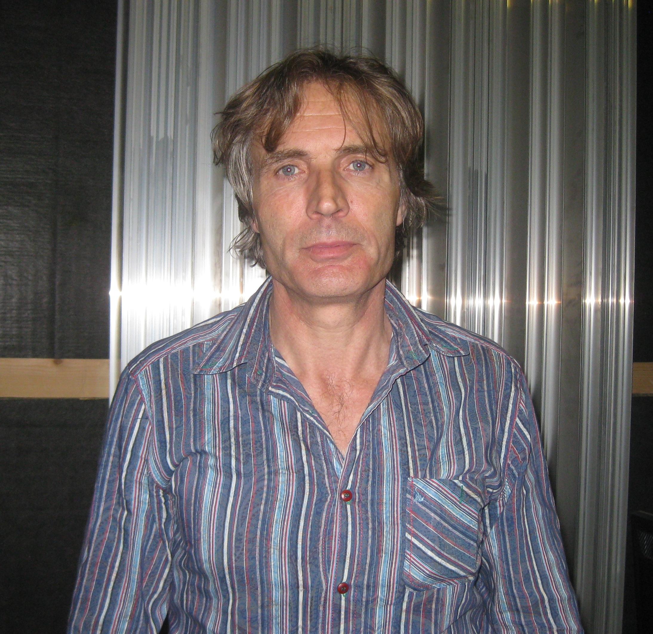 The Bulgarian actor Vasil Binev in studio Doli, June 2, 2015.